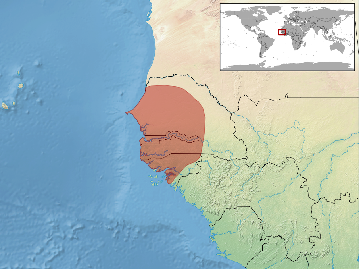 geographic distribution of Cynisca feae (Native: Gambia; Guinea-Bissau; Senegal)